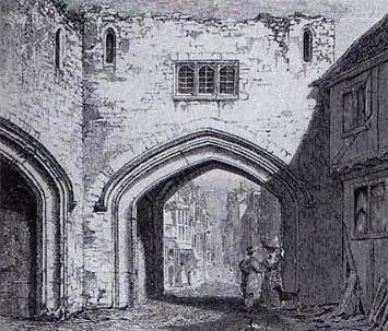 The Gatehouse Prison, Westminster, England. It was built in 1370 as a gatehouse to Westminster Abbey. The illustration shows the prison in dilapidated condition in the 18th century, before it was demolished in 1776.